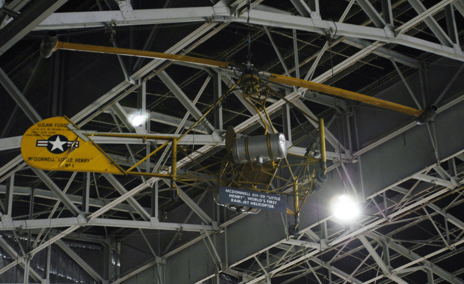 XH-20 Little Henry. License: Information presented on this web site is considered public information and may be distributed or copied. Use of appropriate byline/photo/image credits is requested.